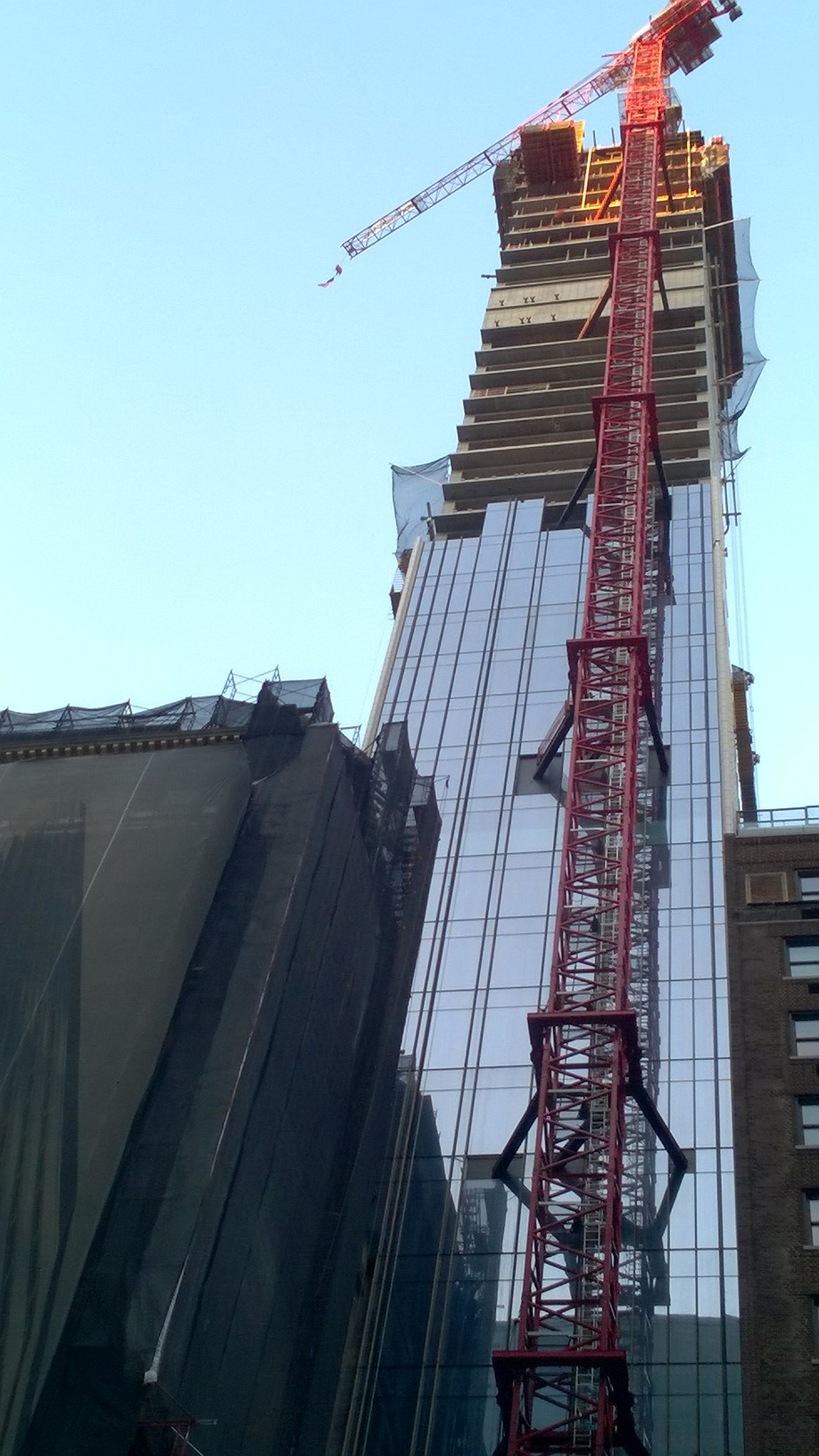 Steinway Tower under construction in New York City on January 26, 2018.